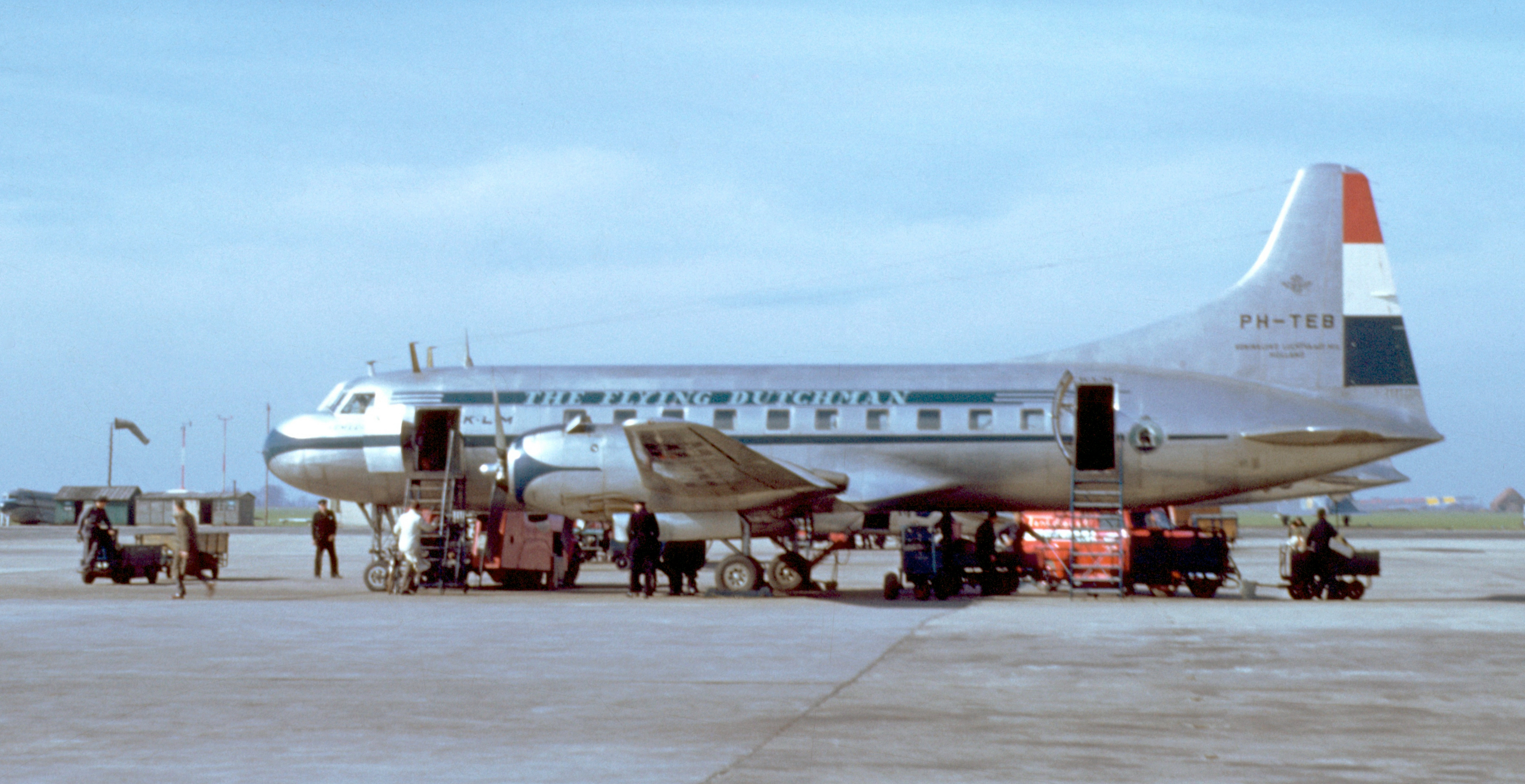 Other images by this contributor - User:Sba2 Use this image as needed, but for uses other than personal, please credit as "Photo by Chalmers Butterfield".